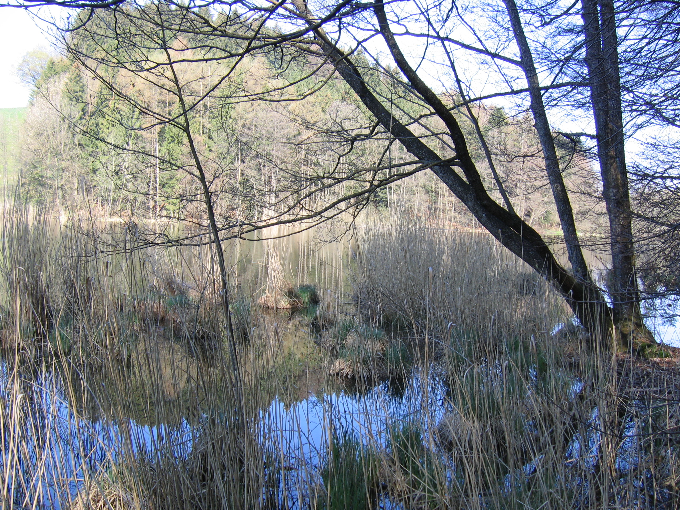 Germany - Baden-Württemberg - Bodenseekreis - Neukirch: Jägerweiher